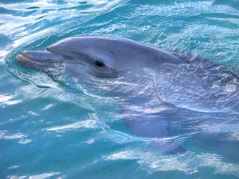 Dubdem Sound System :: Jamaican Tour 2009, Location